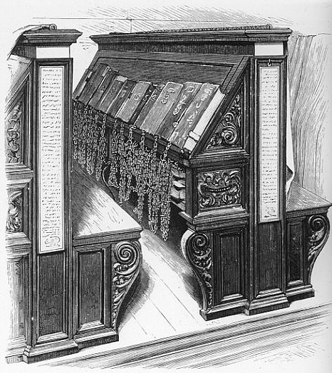 Biblioteca Medicea Laurenziana in Florence (Italy): Press. original caption: "Fig. 102. Bookcases in the Medicean Library, Florence."